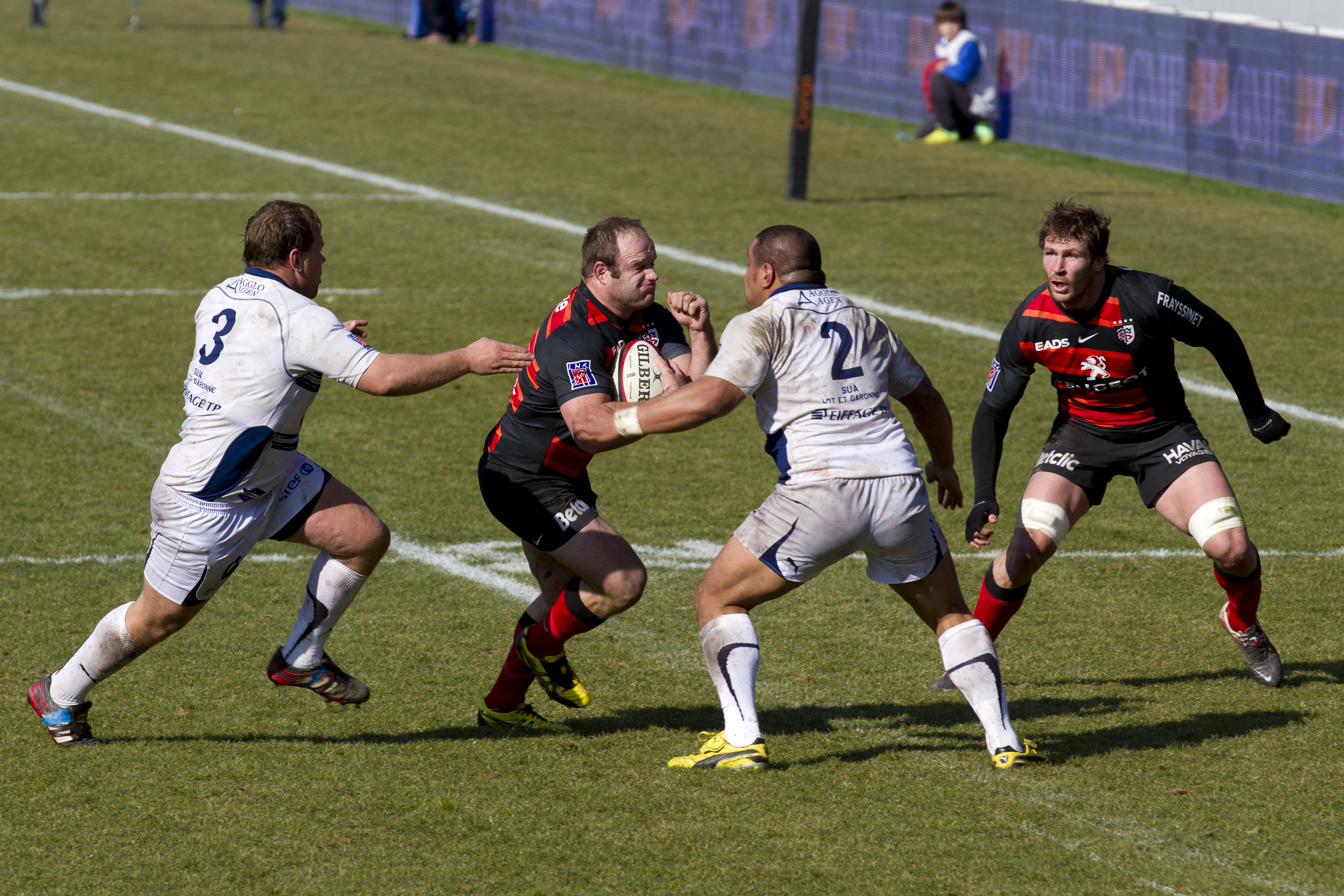 William Servat charge during the match against Agen.